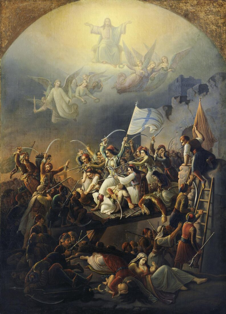 The sortie of Messologhi oil on canvas, dimensions: 1,69 x 1,27m (National Gallery of Athens).